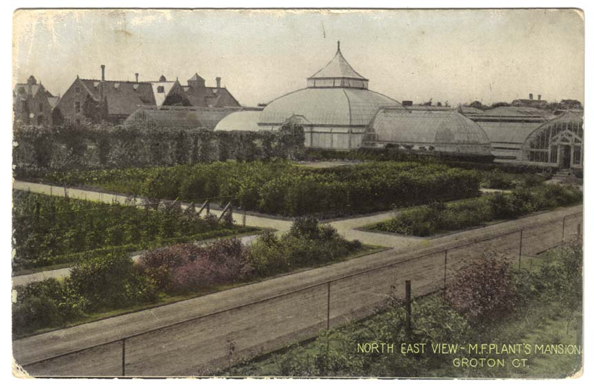 Early postcard of Morton Freeman Plant's mansion, Branford House